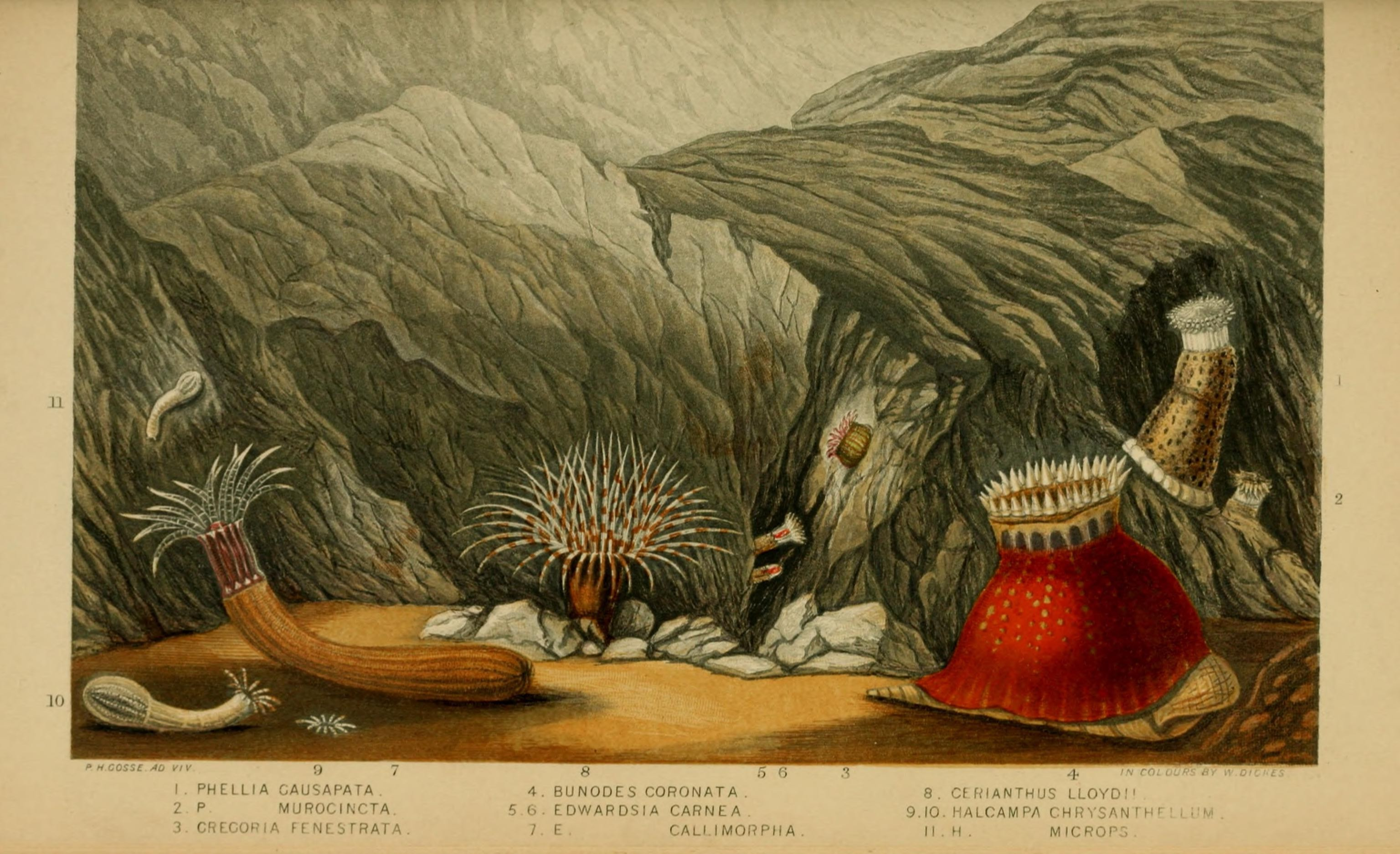 1. Phellia gausapata, 2. P. murocincta, 3. Gregoria fenestrata, 4. Bunodes coronata, 5.-6. Edwardsia carnea, 7. E. callimorphaActinologia britannica : a history of the British sea-anemones and corals.